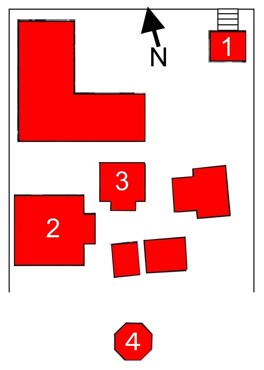 Layout of Fujiidera (Yoshinogawa)